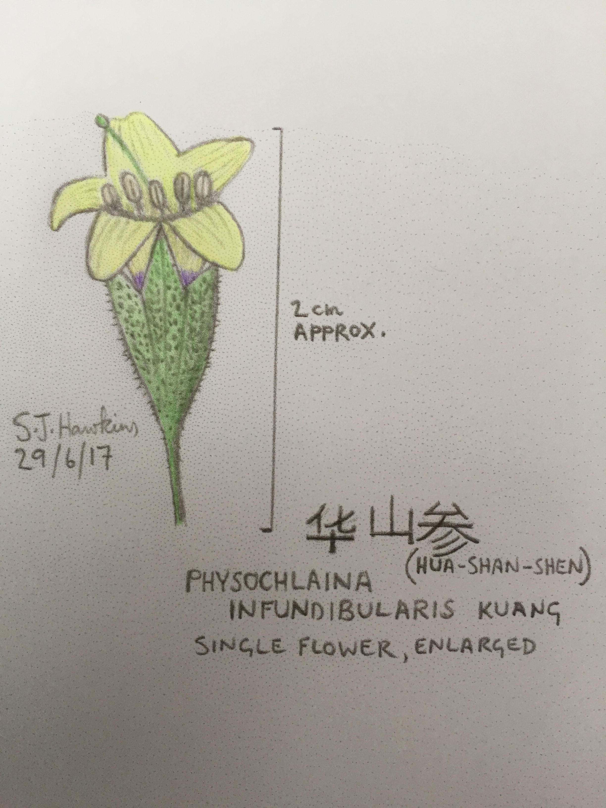 Botanical drawing of single flower of Physochlaina infundibularis Kuang. Not drawn directly from life : based on the very small number of photos and line drawings (of variable quality) available online.